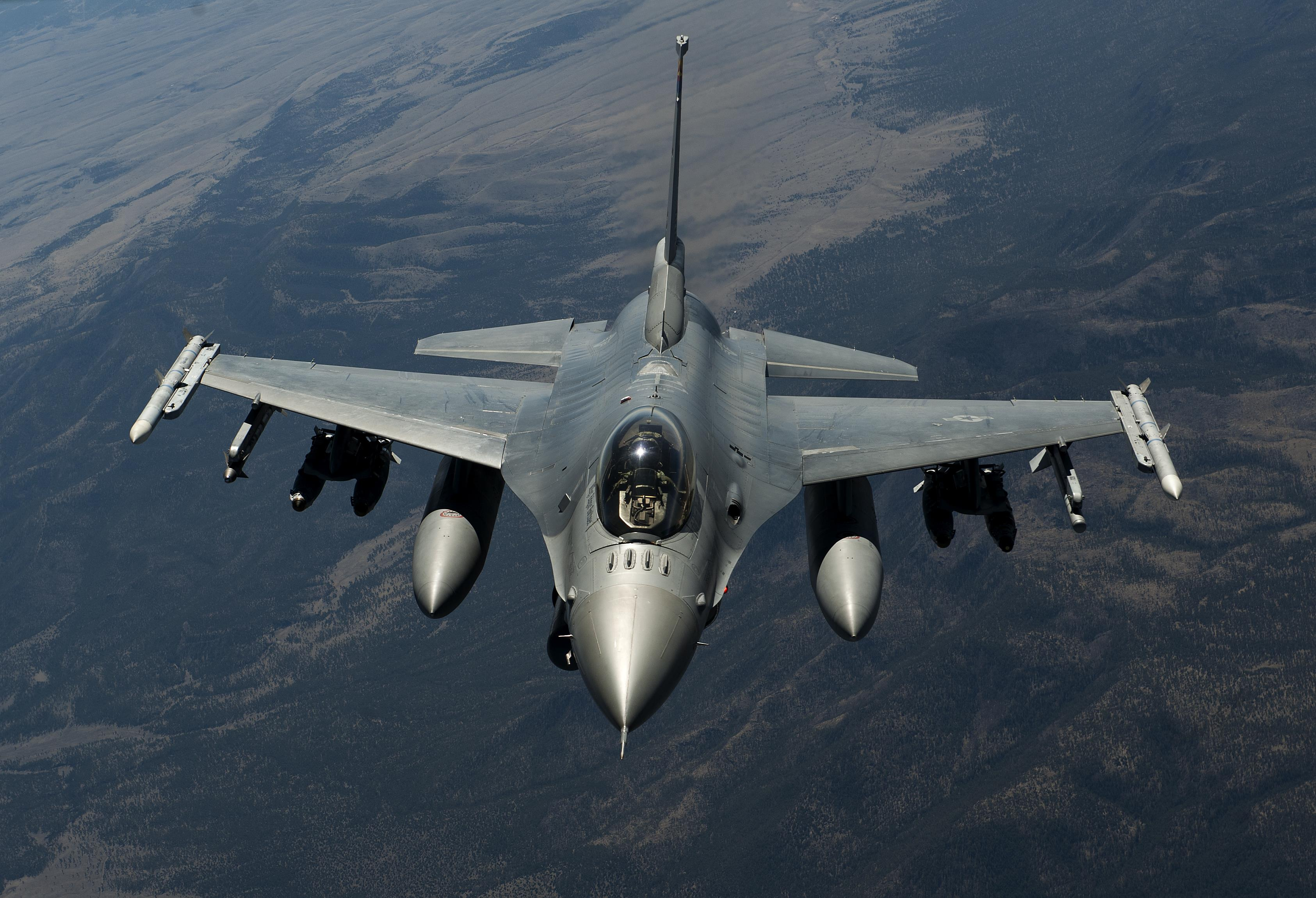 An F-16 Fighting Falcon, from the Arizona Air National Guard's 162nd Wing, dismounts after refueling from a KC-135 Stratotanker, from the 161st Air Refueling Wing, April 8, 2015, near Tucson, Arizona. The F-16 took part in a flying mission that included Iraqi and Dutch aircraft who were conducting upgrade training. International F-16 training has been accomplished at Tucson since 1990. Find other great F-16 images from this set in next month's issue of Airman Magazine. Check them out at airman.dodlive.mil. (U.S. Air Force photo by Staff Sgt. David Salanitri/Released)